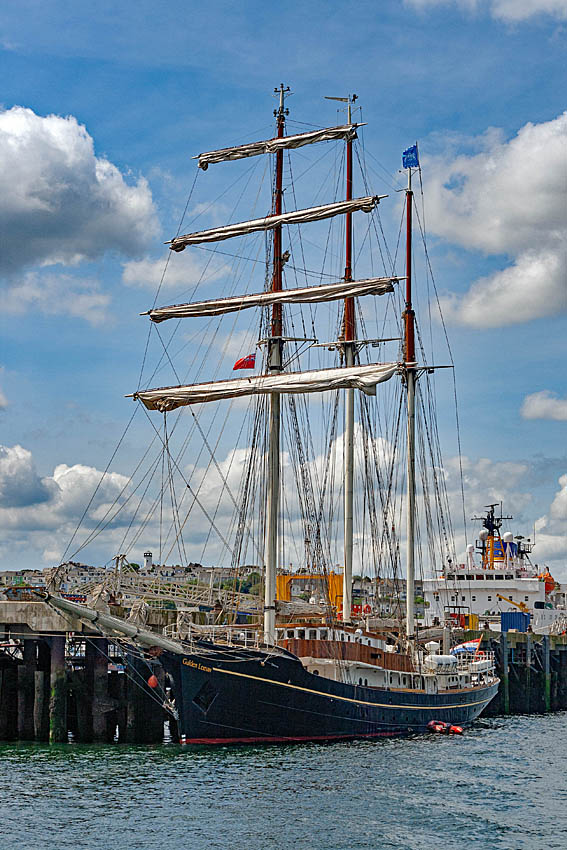 Gulden Leeuw (Golden Lion) 3 masted topsail schooner at Falmouth, ex Danish research vessel Dana. Information about the vessel may be found at IMO 5085897.A ship can change name and flag state through time, but the IMO number remains the same through the hull's entire lifetime. As a result, it can be useful to identify a ship by using the IMO number.